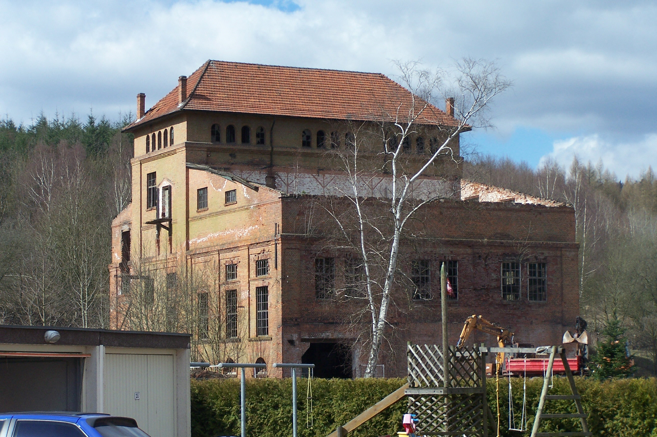 The old mining building in Menzengraben.